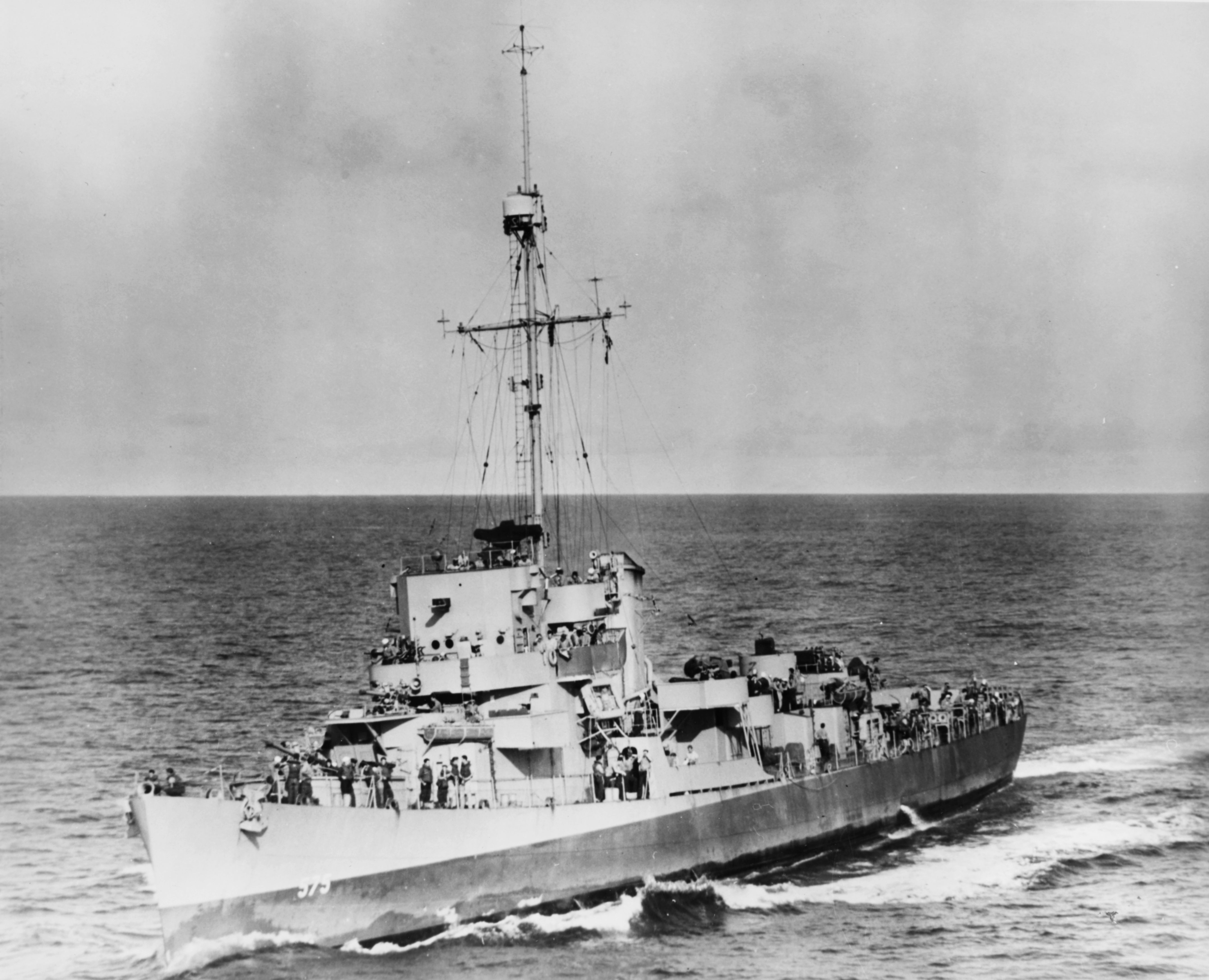 The U.S. Navy destroyer escort USS Ahrens (DE-575) underway in the Atlantic Ocean on 13 May 1944, seen from the escort carrier USS Bogue (CVE-9). Note the High Frequency Direction Finder (HF/DF) antenna mounted on Ahrens's foremast peak. 16 days after this photograph was taken, on 29 May 1944, Ahrens and USS Eugene E. Elmore (DE-686) sank the German submarine U-549 northwest of the Canary Islands.